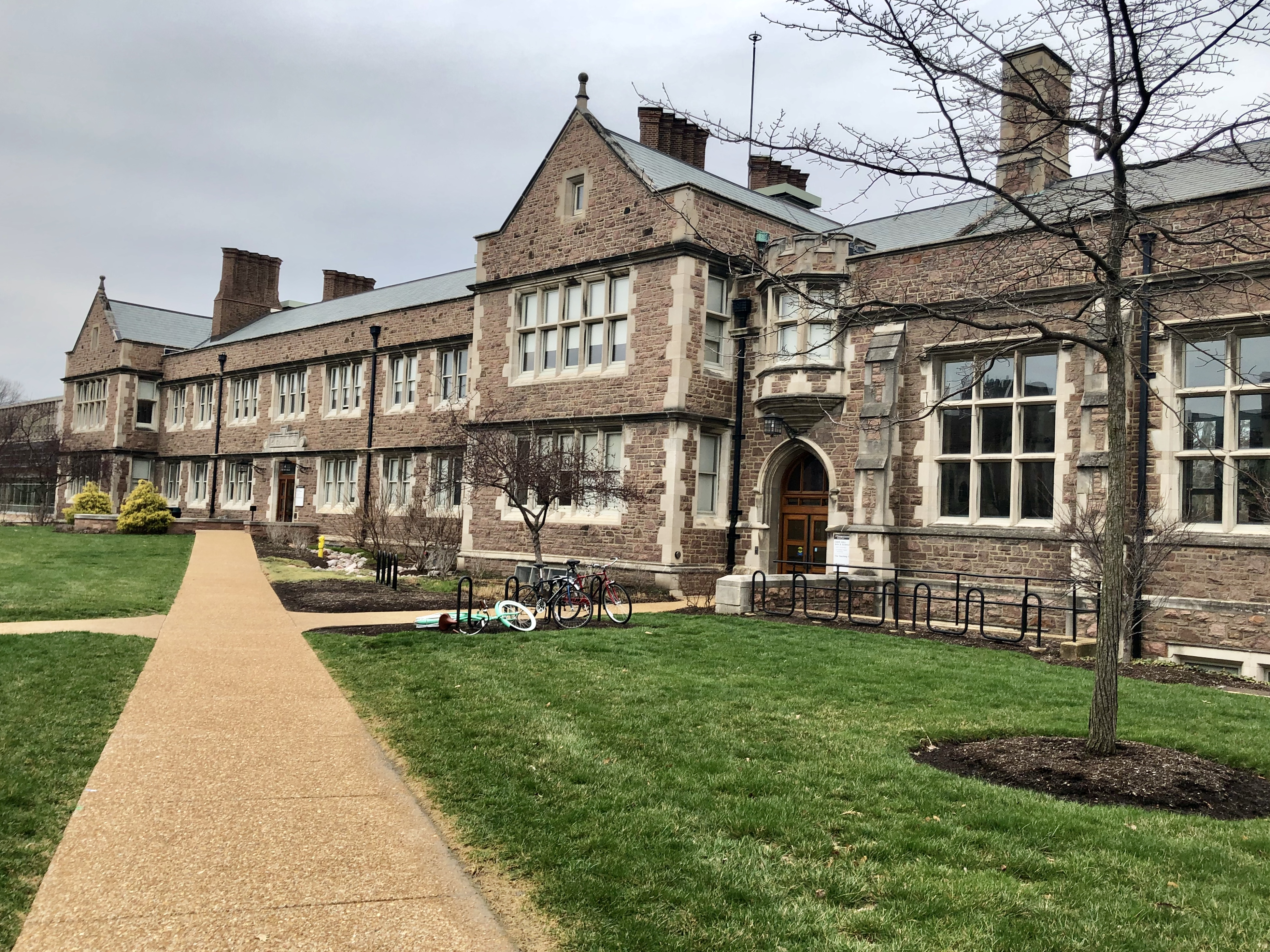 WashU Danforth Campus